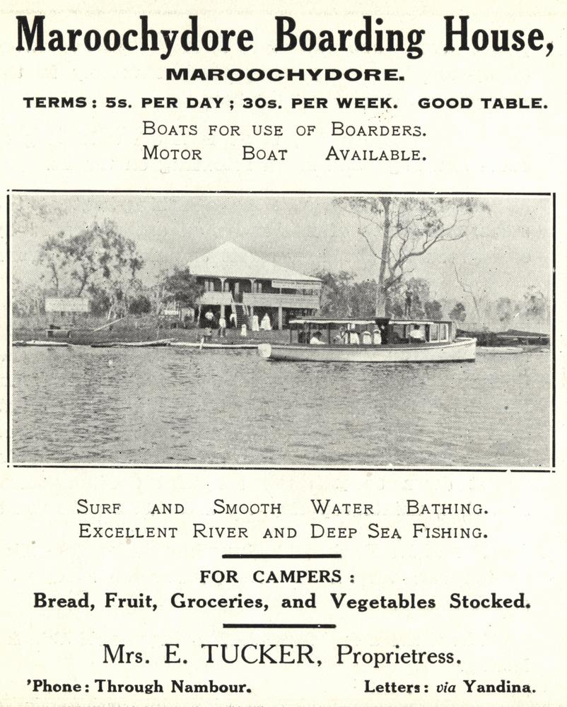 Maroochydore Boarding House, ca. 1917. Advertisement for weekly and daily accommodation in the Maroochydore area.